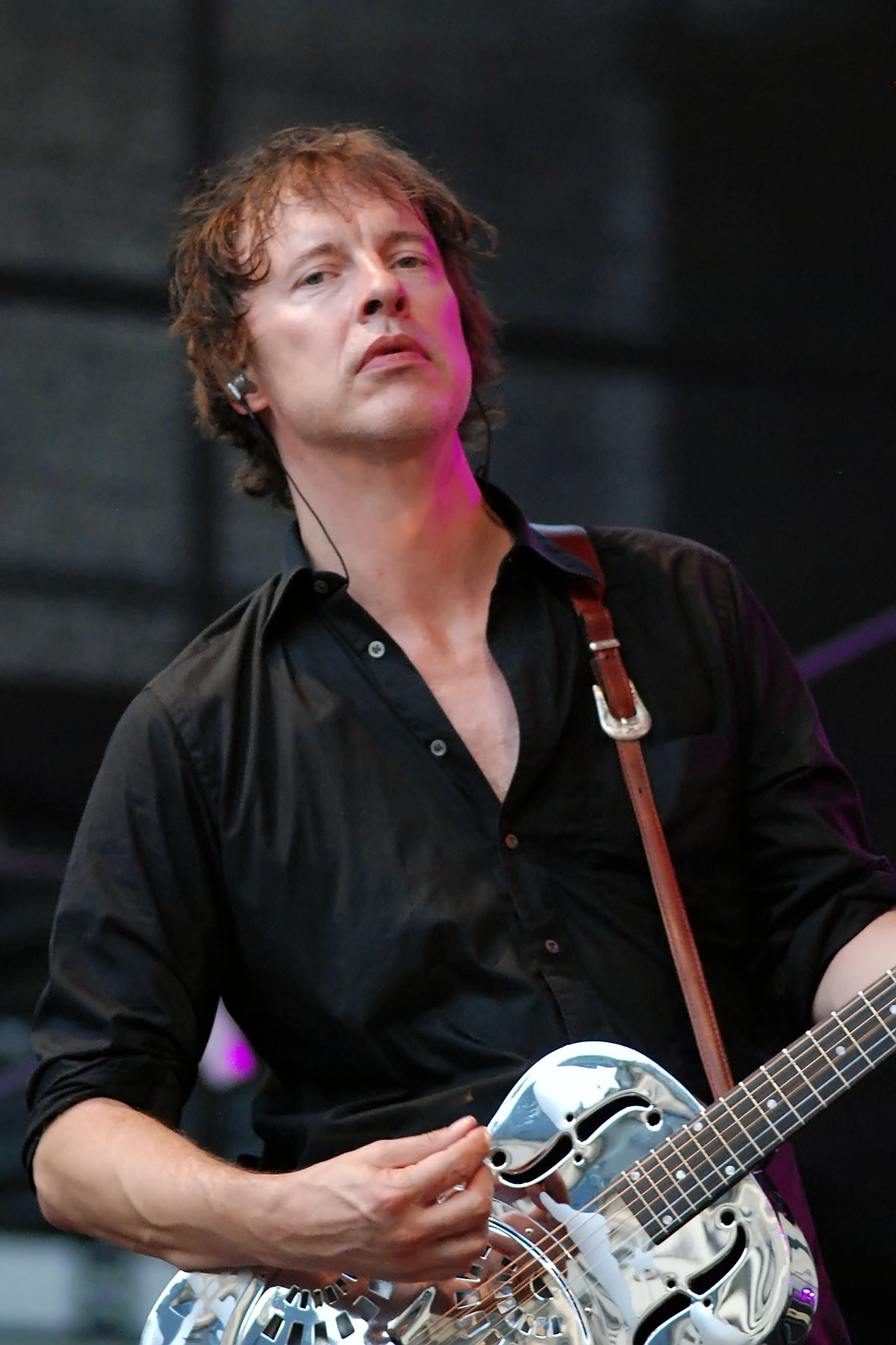 Helmut Krumminga